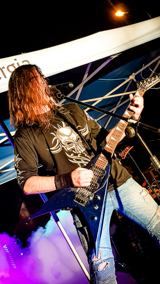 Tristan Kłycho - wokalista i gitarzysta rytmiczny UnFaced